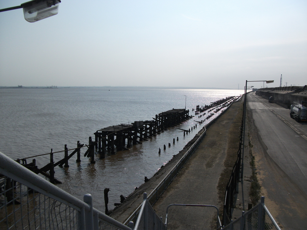 Note: geotagged images have been done manually, generally to ~5m or better accuracy, but human errors may occur. Location refers to camera location, no location of object photographed.